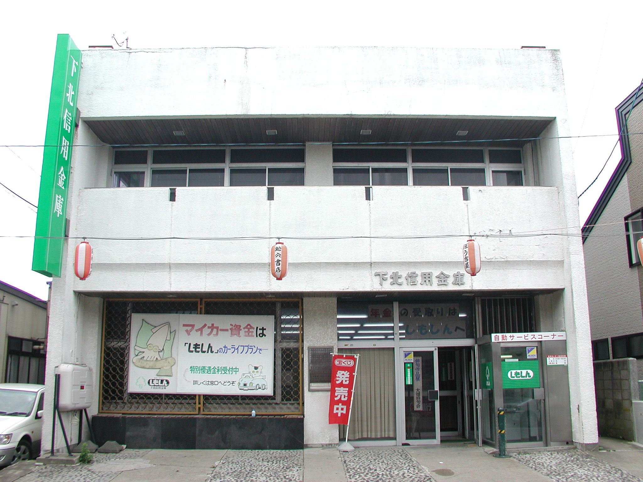 Shimokita Shinkin Bank Ōhata Branch